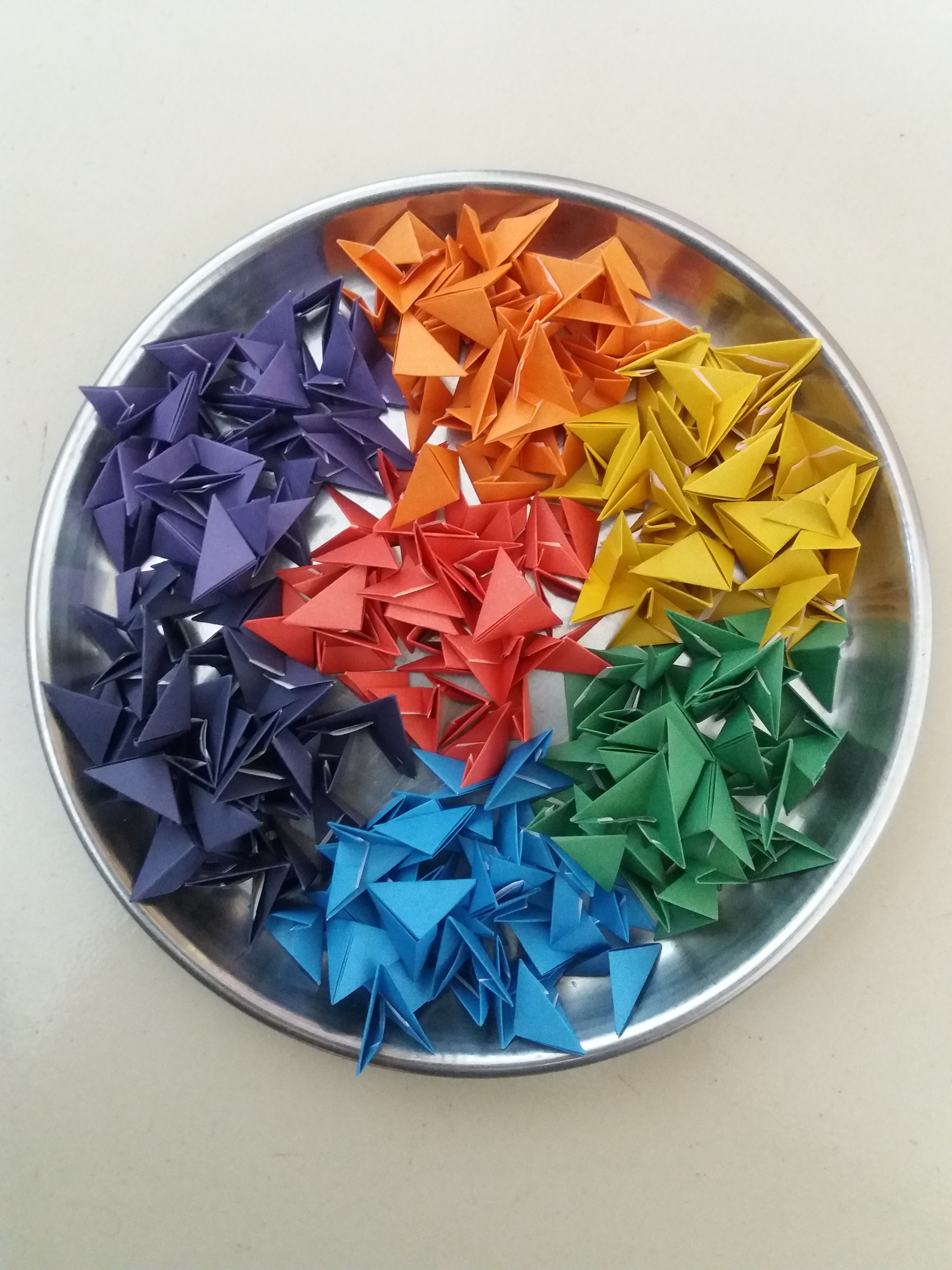 triangular origami modules made from colorful papers